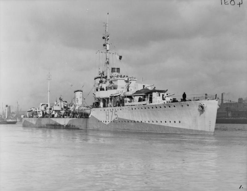 The Canadian River class destroyer HMCS Kootenay (H75), sometime between 1943 and 1945. Originally the Royal Navy D class destroyer HMS Decoy (H75).